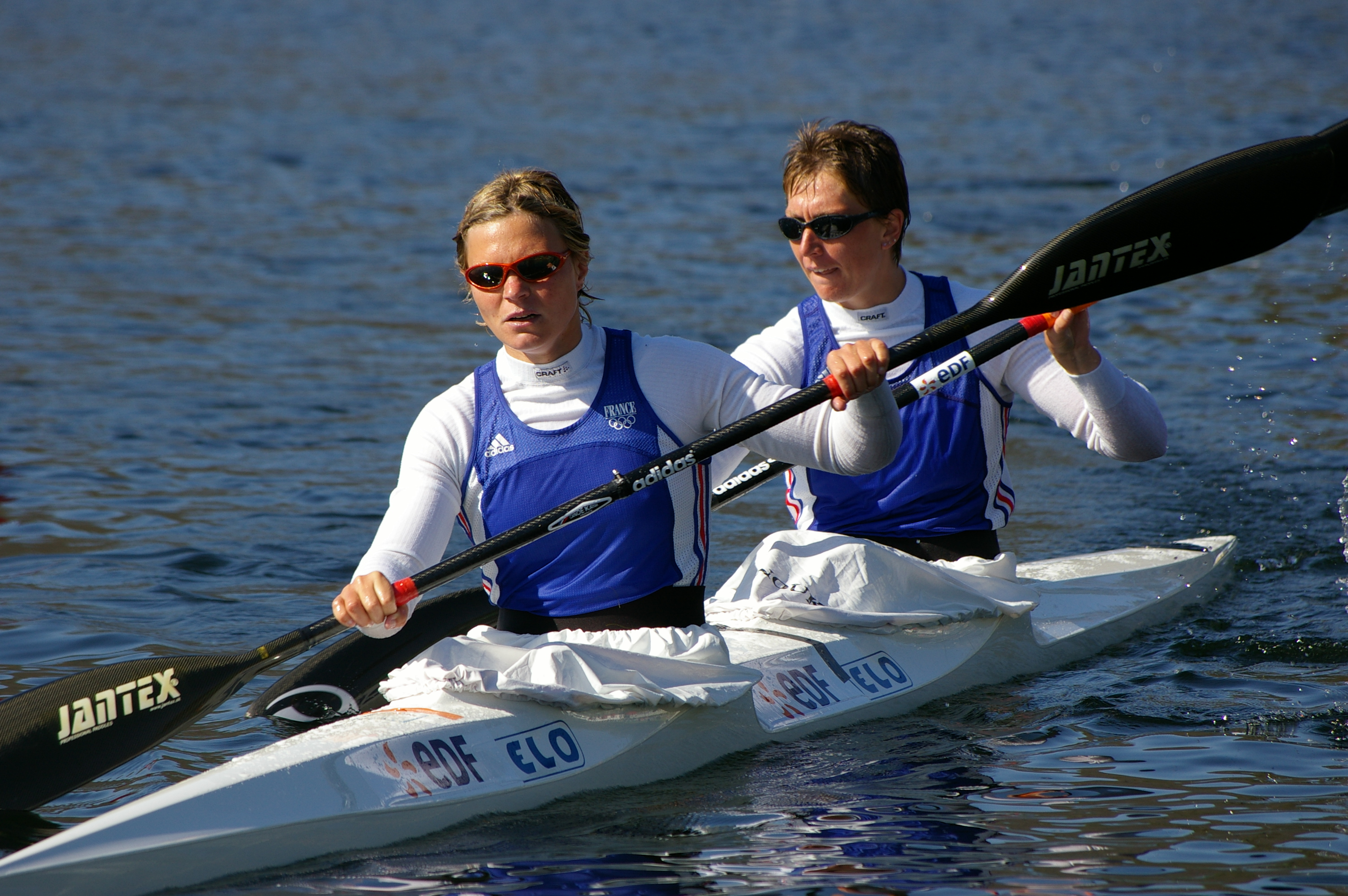 Marie Delattre and Anne Laure Viard, Pontevedra 2007